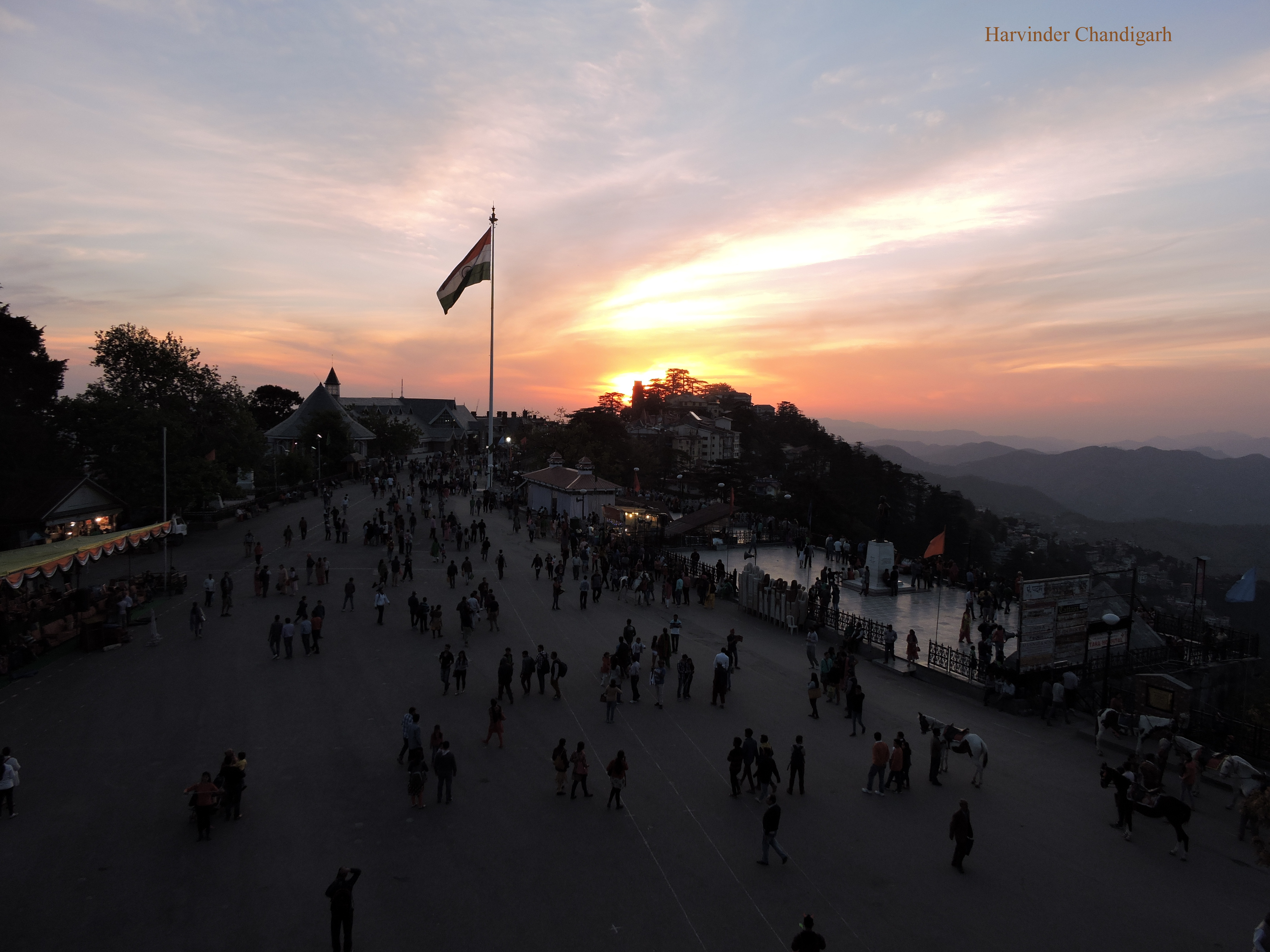 The Ridge, Shimla, Himachal Pardesh, India